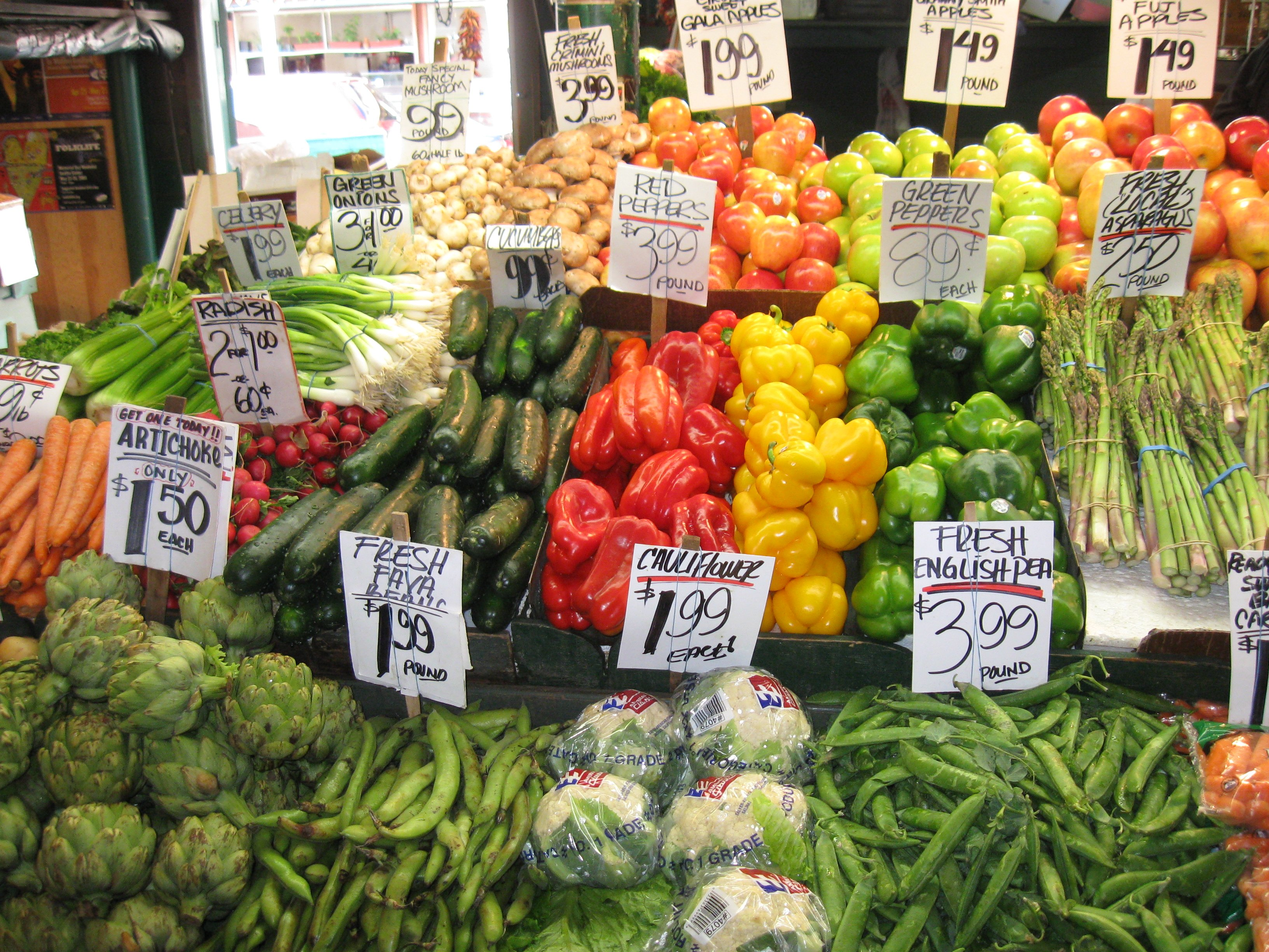 Pike Place Market